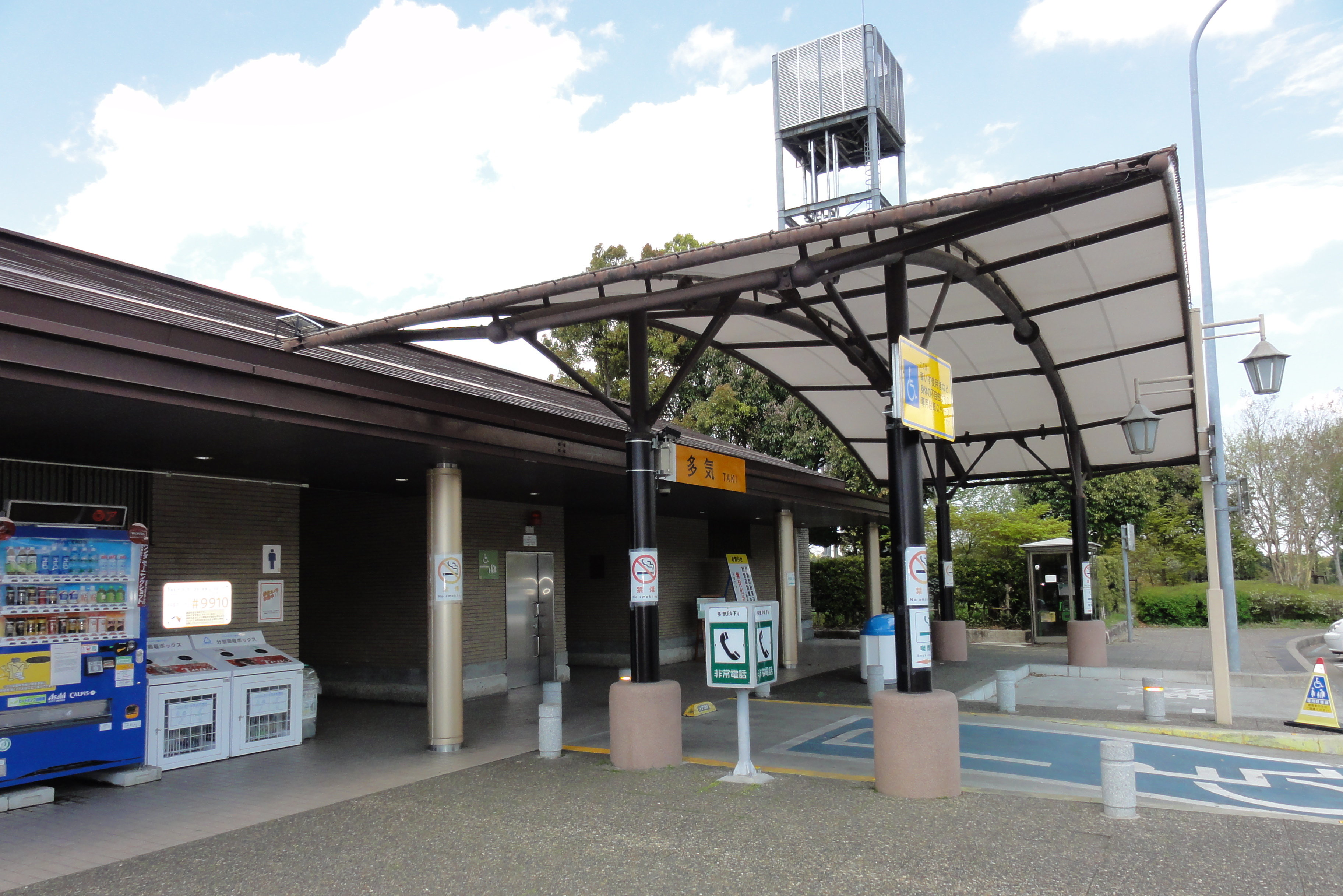 Taki Parking Area ,Mie prefecture, Japan